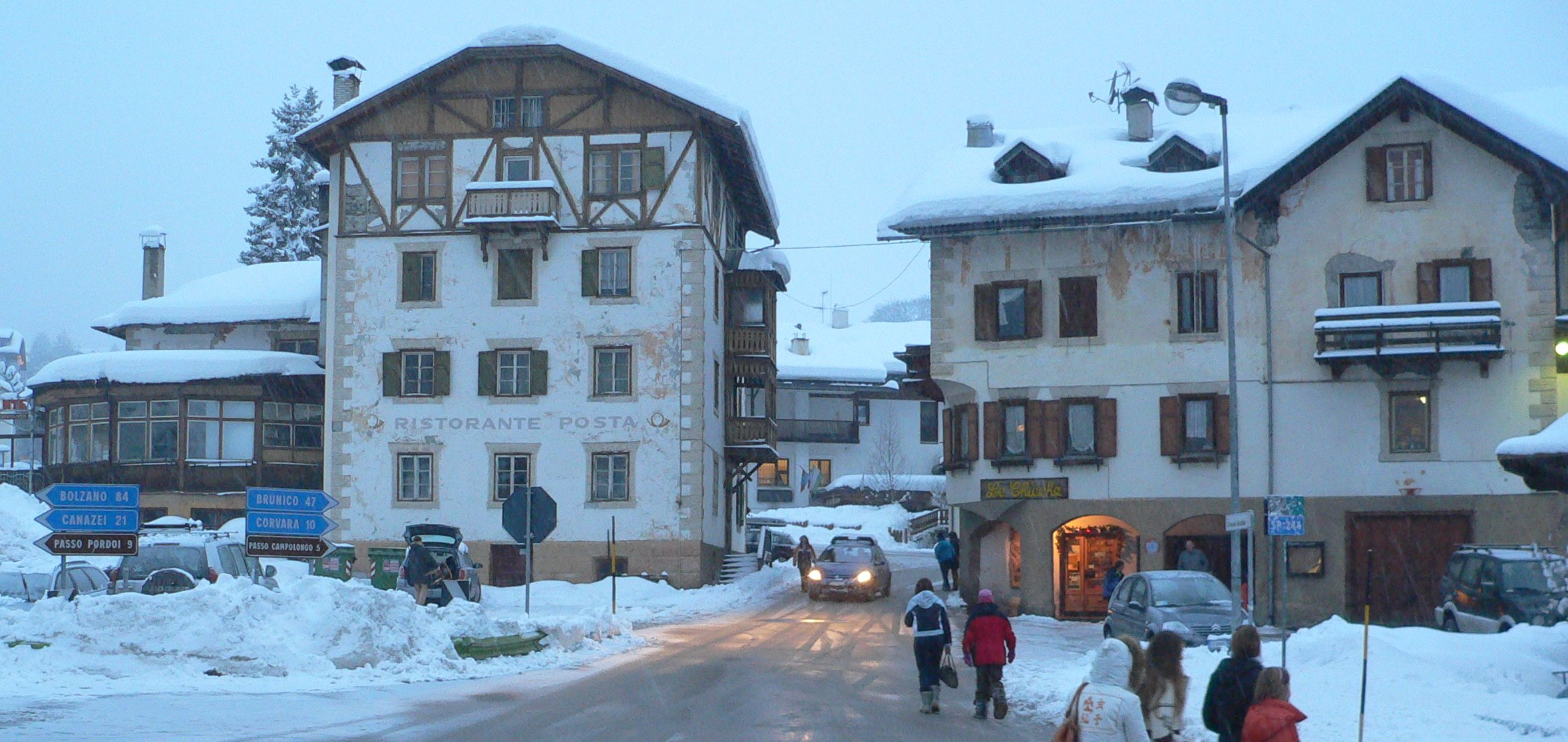 Arabba, Italy, February 2006, photo by myself